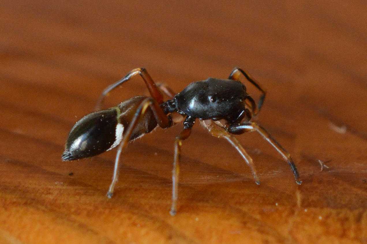 A female jumping spider Leptorchestes sp. in Botevgrad, Bulgaria. Possibly Leptorchestes berolinensis.